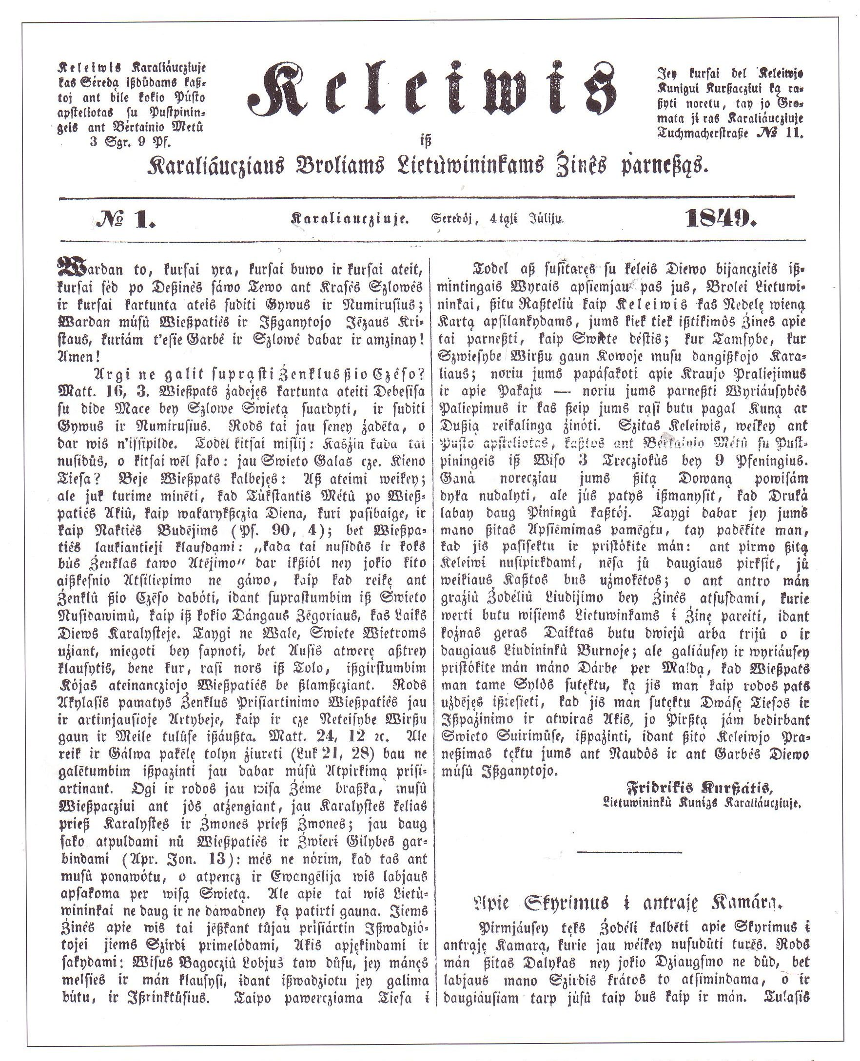 Journal Keleiwis for the Lithuanians in Prussia